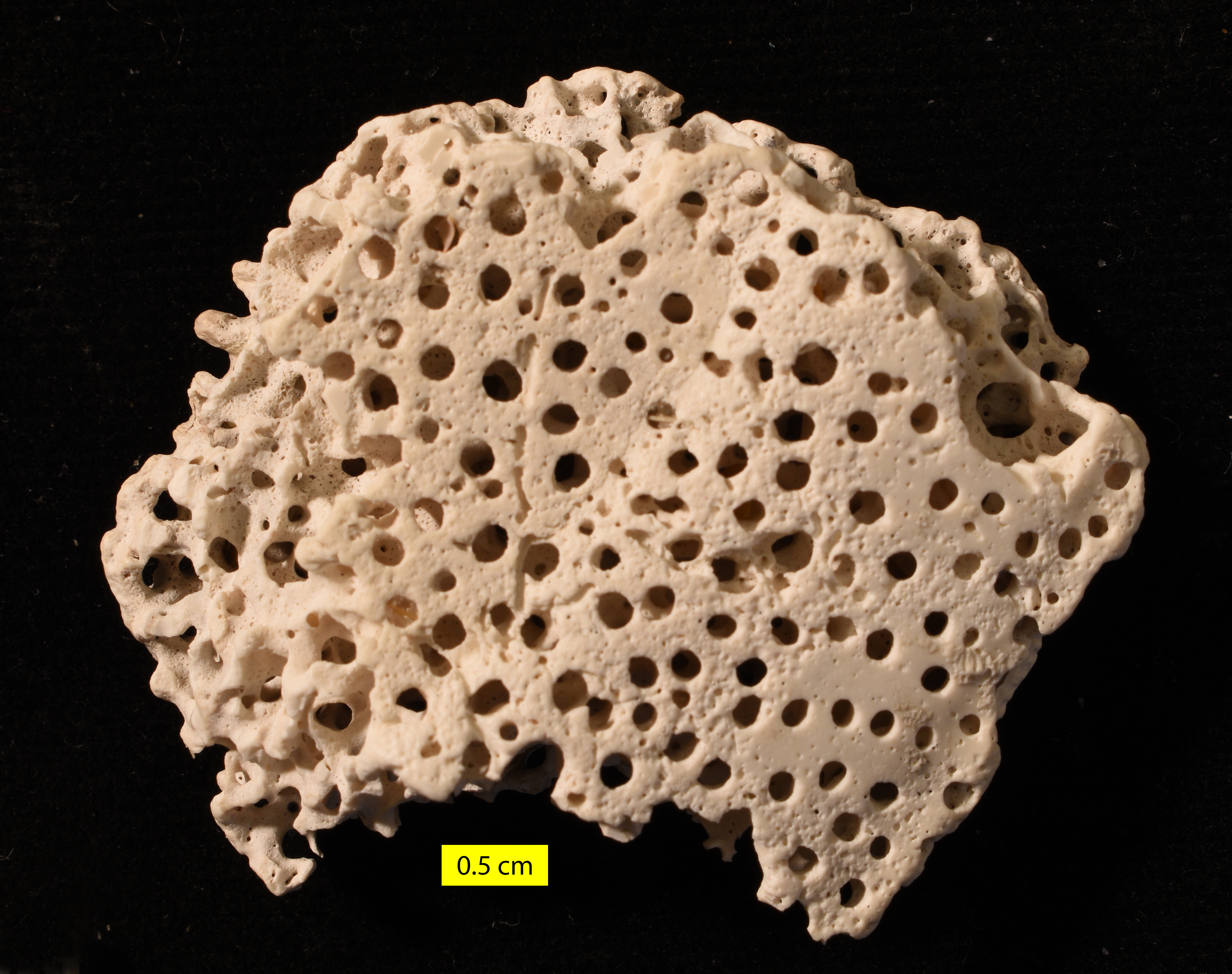 Entobia: a trace fossil formed by boring clionaid sponges.